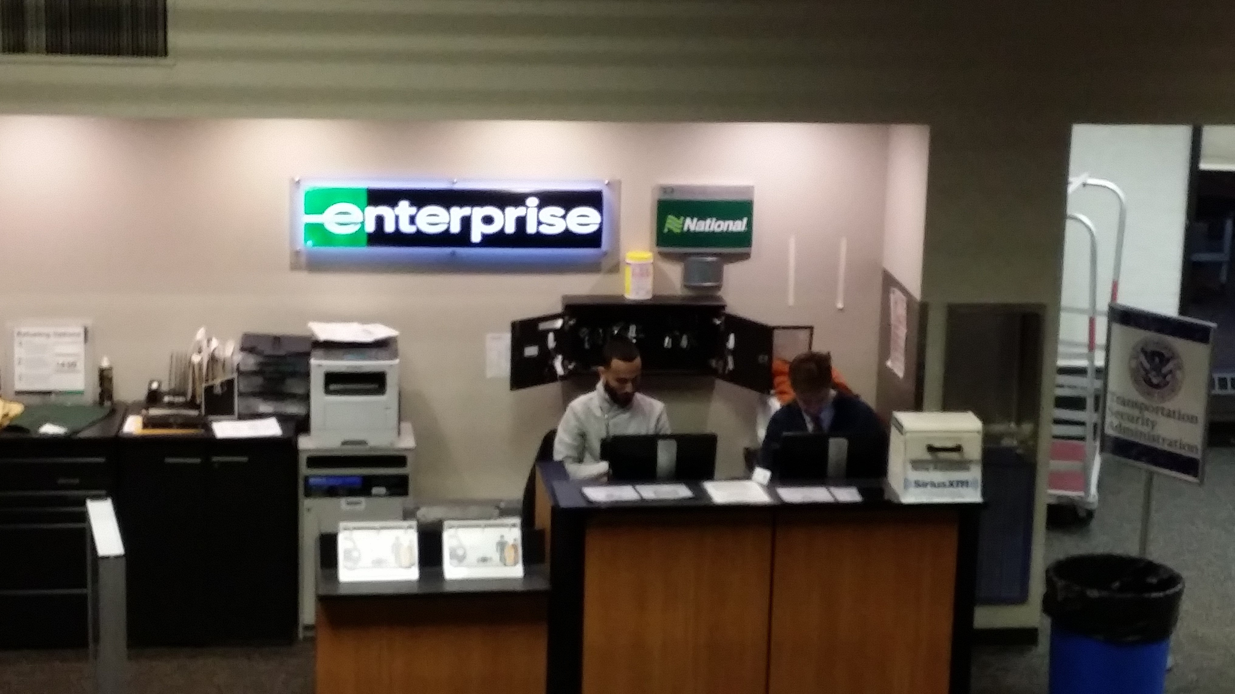 Rental Car Counter for Enterprise Rent A Car and National Car Rental at Trenton Mercer Airport